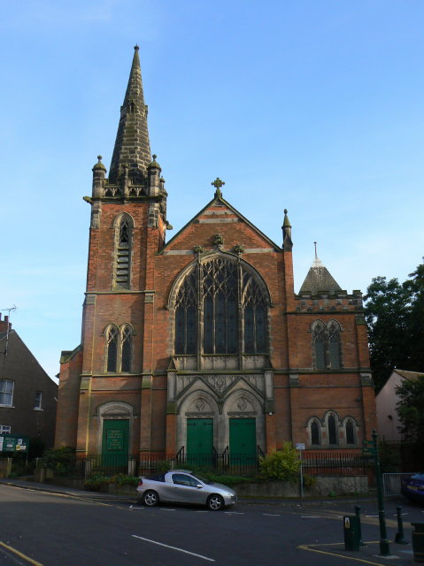 Castle Donington Methodist Church Built in 1905 to replace the old church on Apiary Gate. Designed by Nottingham architect A. E. Lambert.